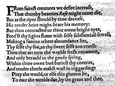 Shakespeare's sonnet 1